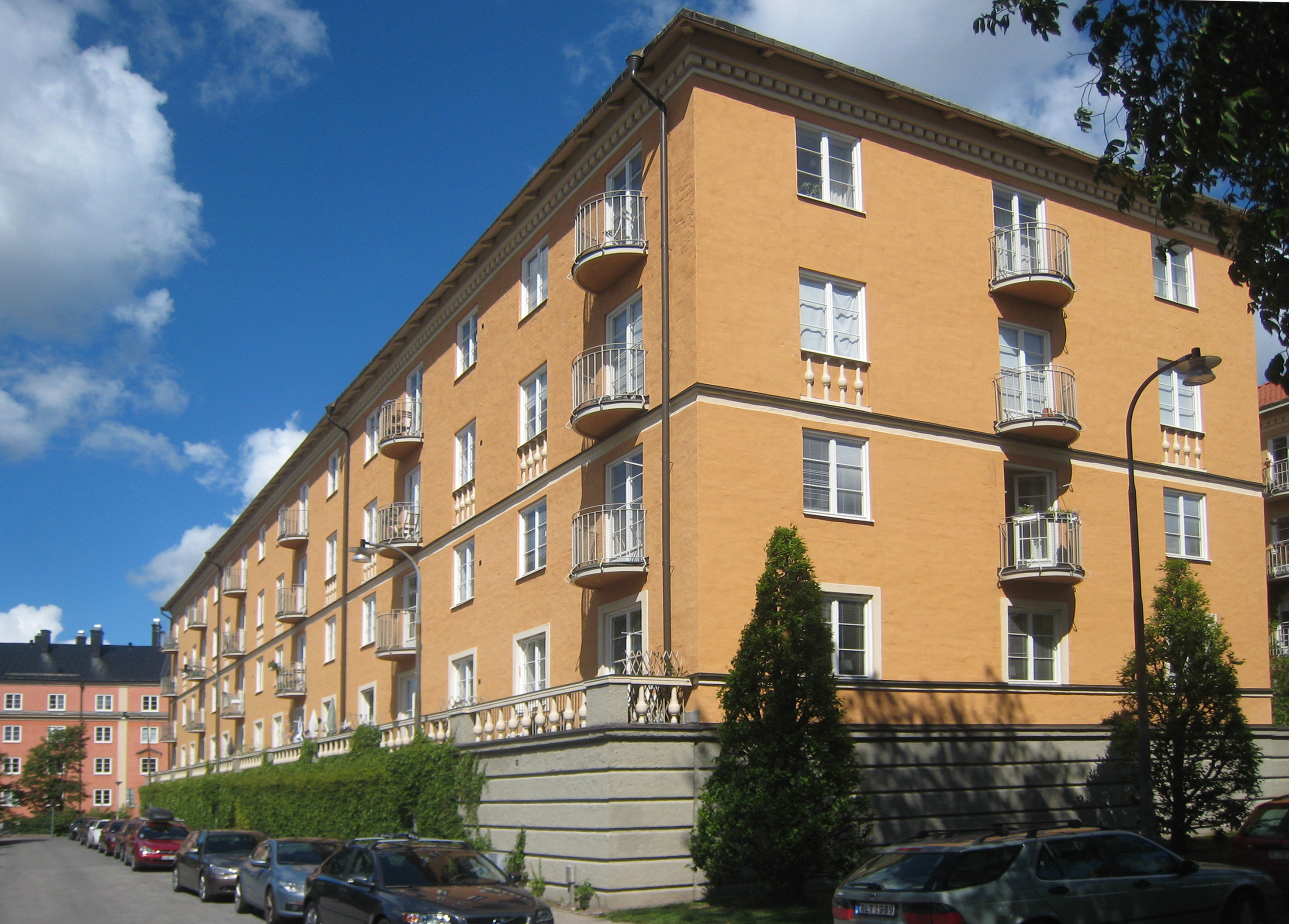 Kvarteret Metern, built by HSB 1928 (architects Sven Wallander and Sigurd Westholm).